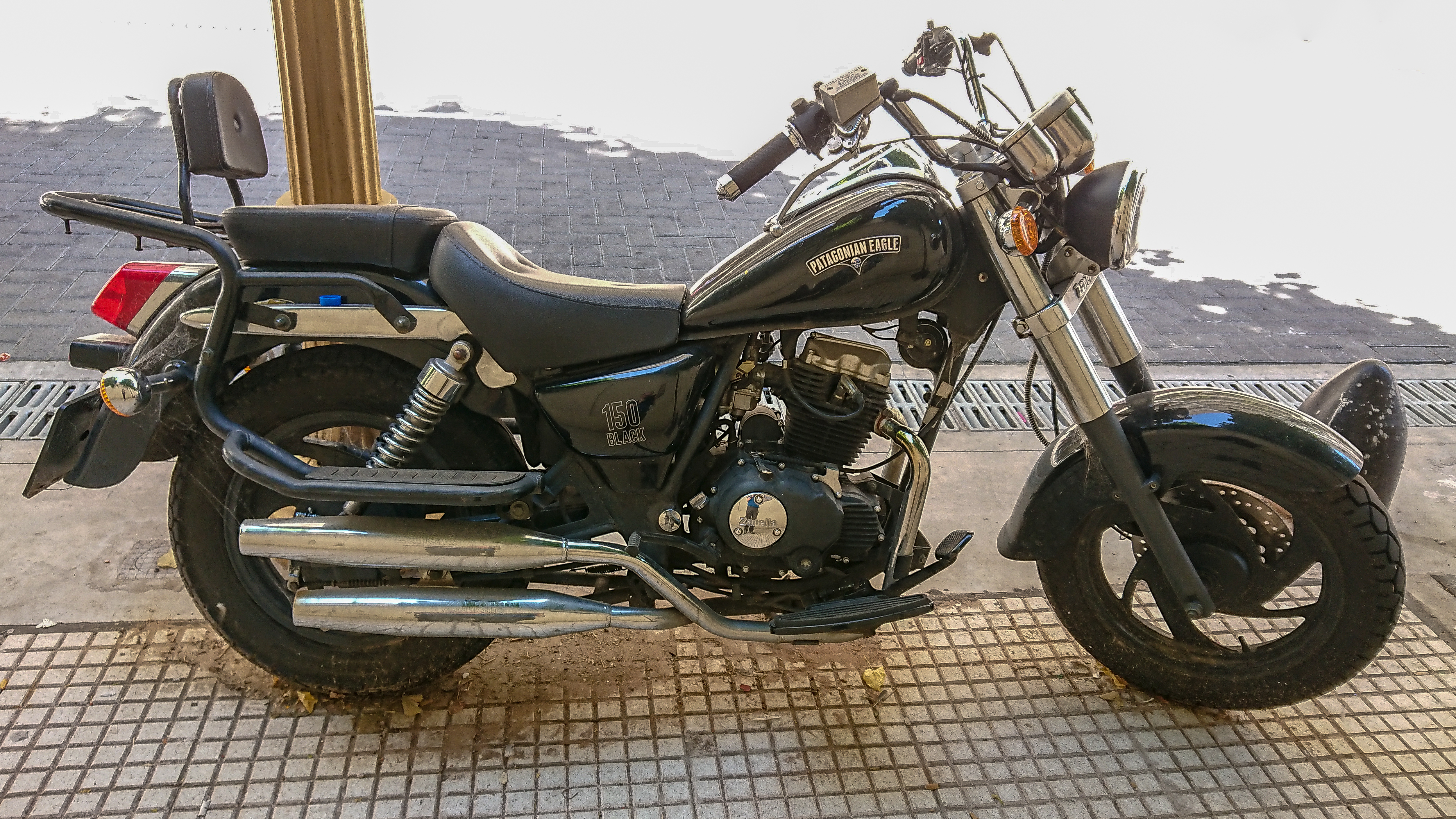 On the street in the Retiro District of Buenos Aries, Argentina is a Moto Zanella Patagonian Blackstreet 150 Custom motorcycle, taken on February 27, 2019.